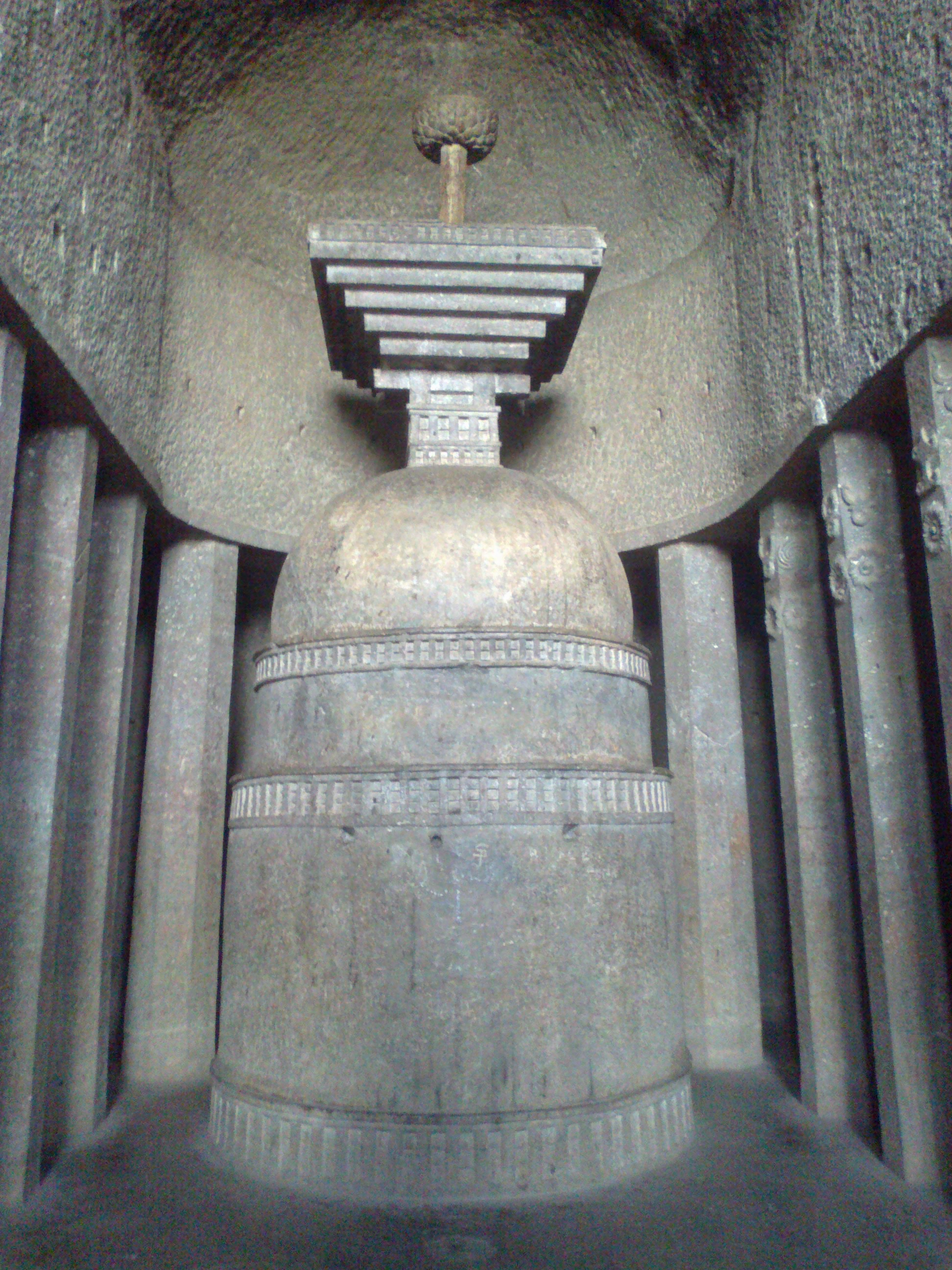 Cave Temple and Inscription Bedse Caves Pune (Bedse Caves)